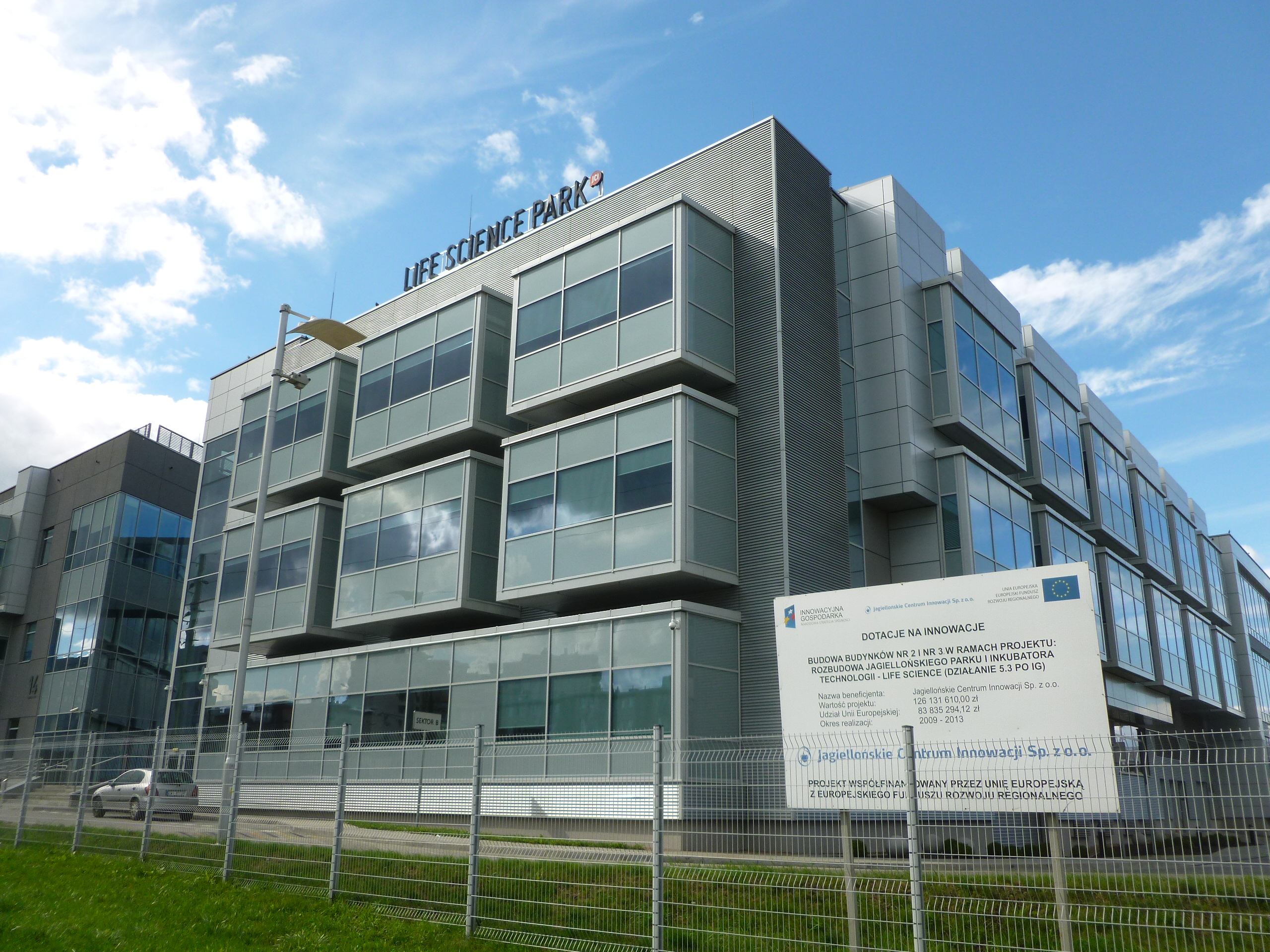 Life Science Park - Jagiellonian University technological park in Krakow